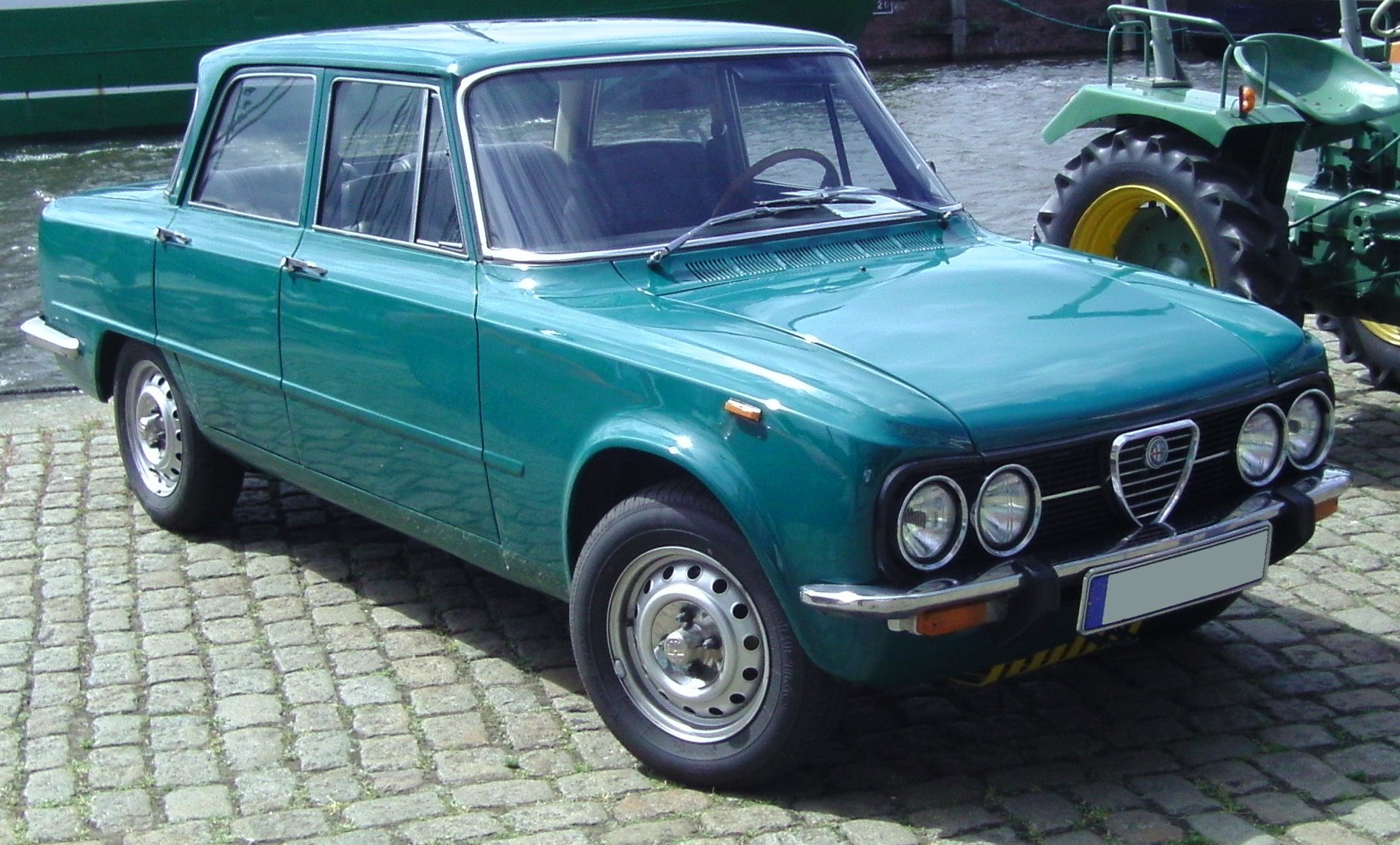 An Alfa Romeo Giulia Nuova Super 1600